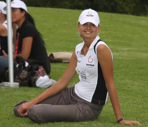 Miss Belarus 2008 Volha Khizhynkova during Miss World 08